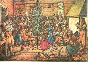 Drawing by Hugo Hamilton (1802–1871) of a Knut's dance in one of the cottages at Boo manor, Sweden.